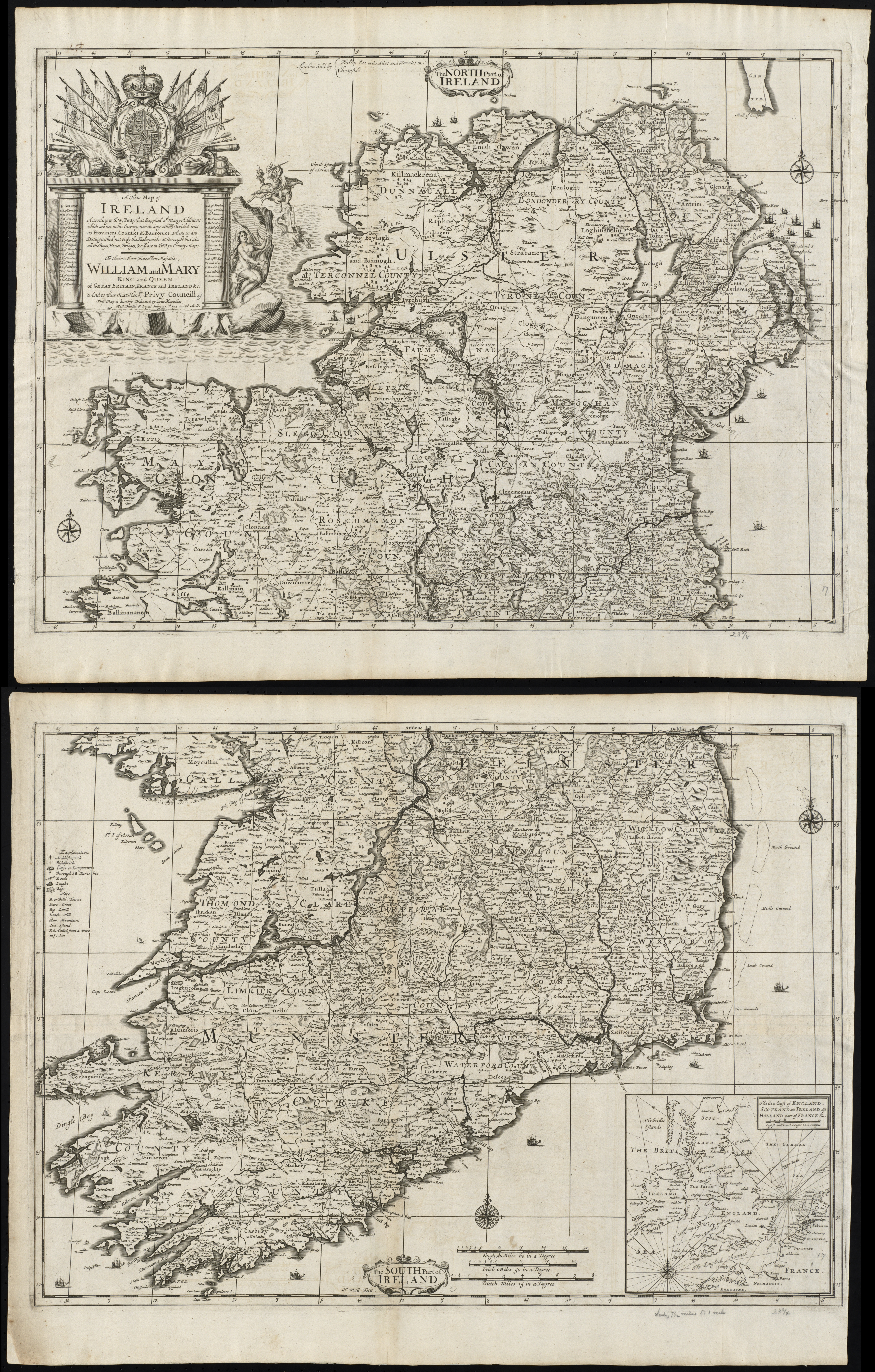 Zoom into this map at . Author: Lea, Philip Publisher: Lea, Philip Date: 1695 Location: Ireland Dimensions: 95 x 61 cm, sheets 52 x 66 cm. Scale: [ca. 1:525,000] Call Number: G1015 .C651 1630